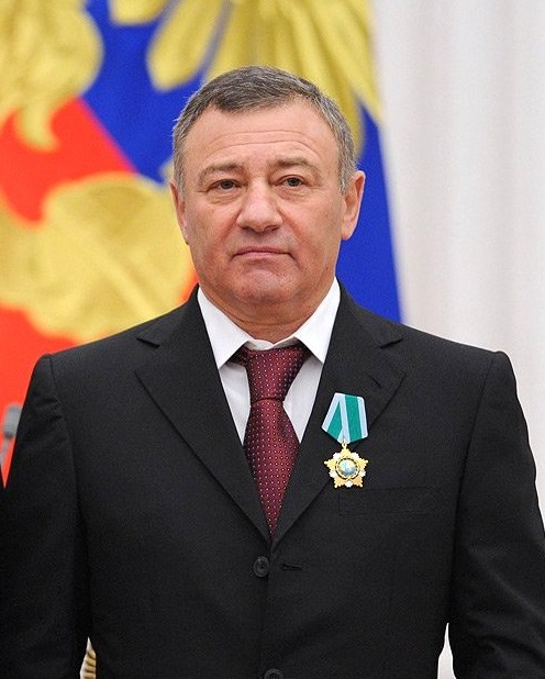 Arkadi Rotenberg at award's ceremony. Moscow, Kremlin. 29 Oct 2013.